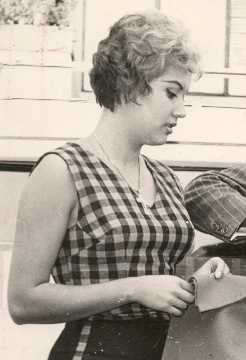 Cine Mundial, 31 Enero 1959